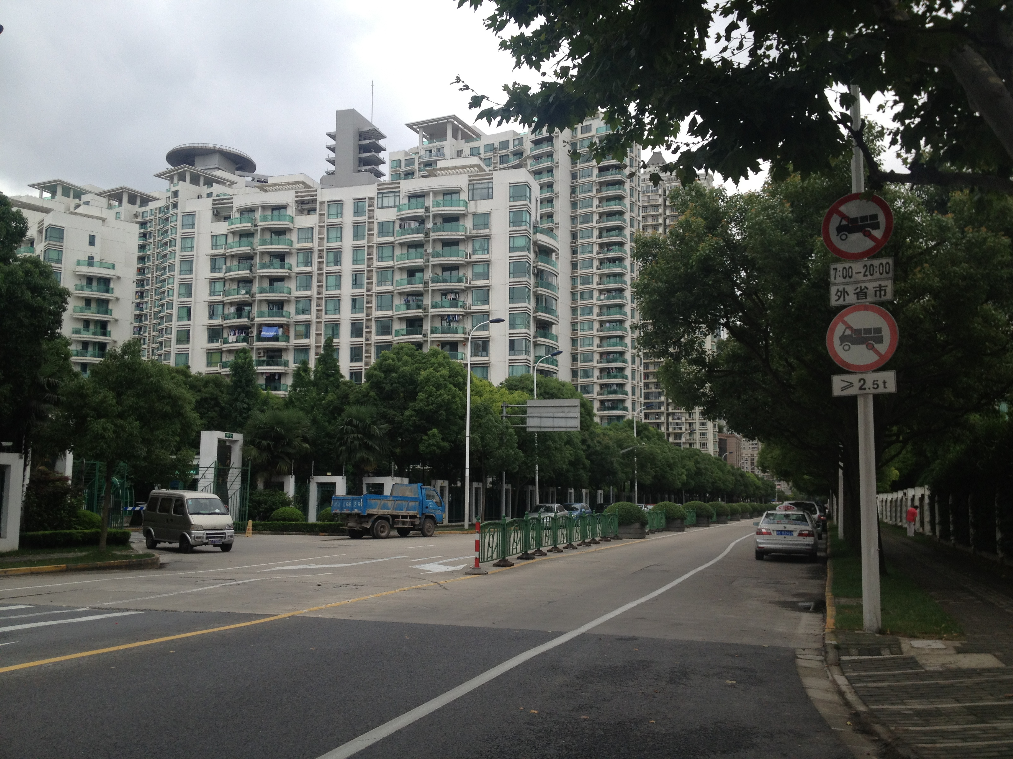 changliu Road Shanghai